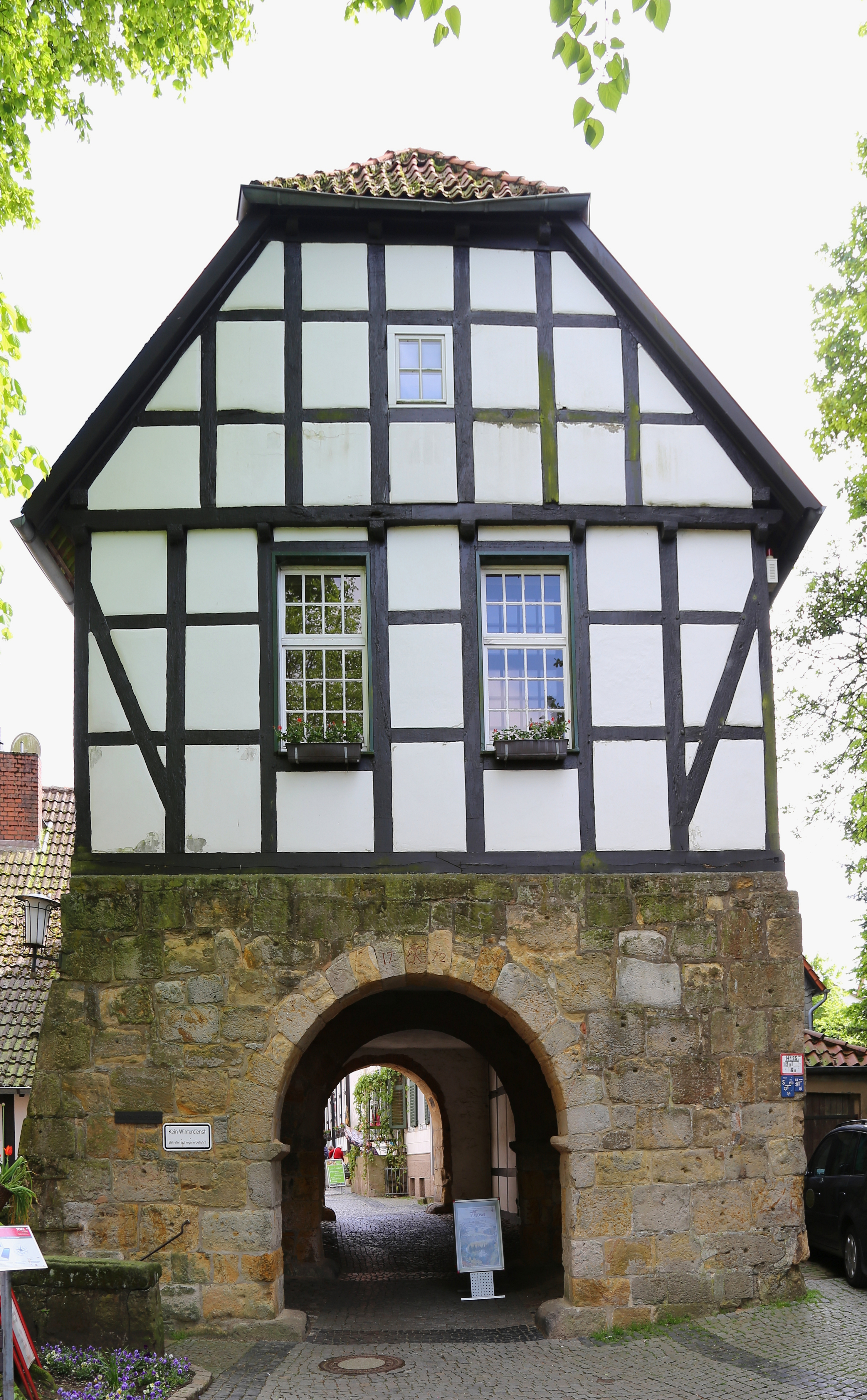 The gatehouse Legge in Tecklenburg, Kreis Steinfurt, North Rhine-Westphalia, Germany.